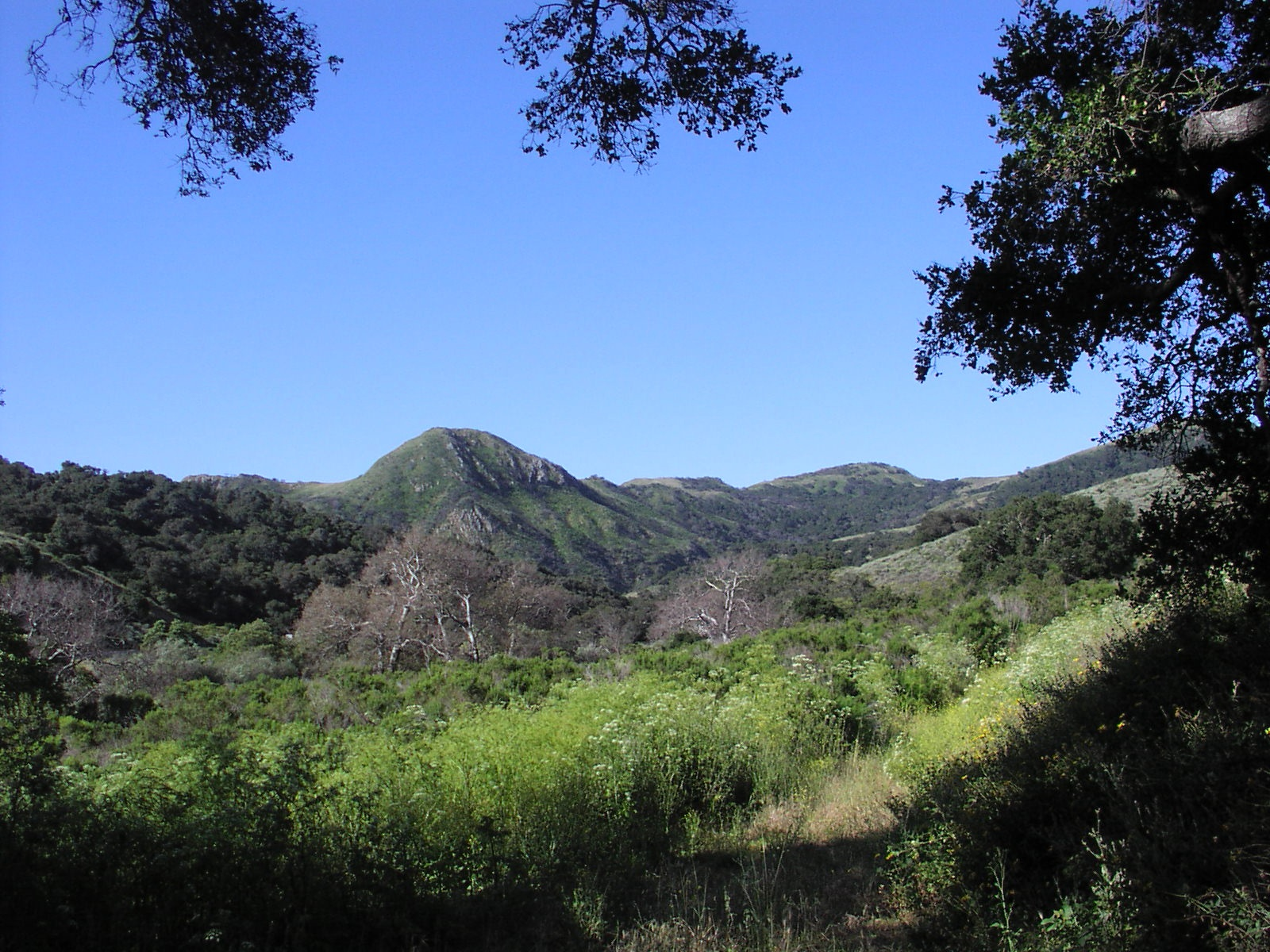 Gaviota State Park, west unit trail, Santa Ynez Mountains, Santa Barbara County, California, USA California Sycamores, Platanus racemosa, with white bark and in winter deciduous phase, are in the center distance. taken by me 5/28/06